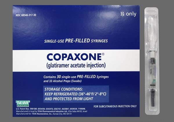 syringe and box of copaxone